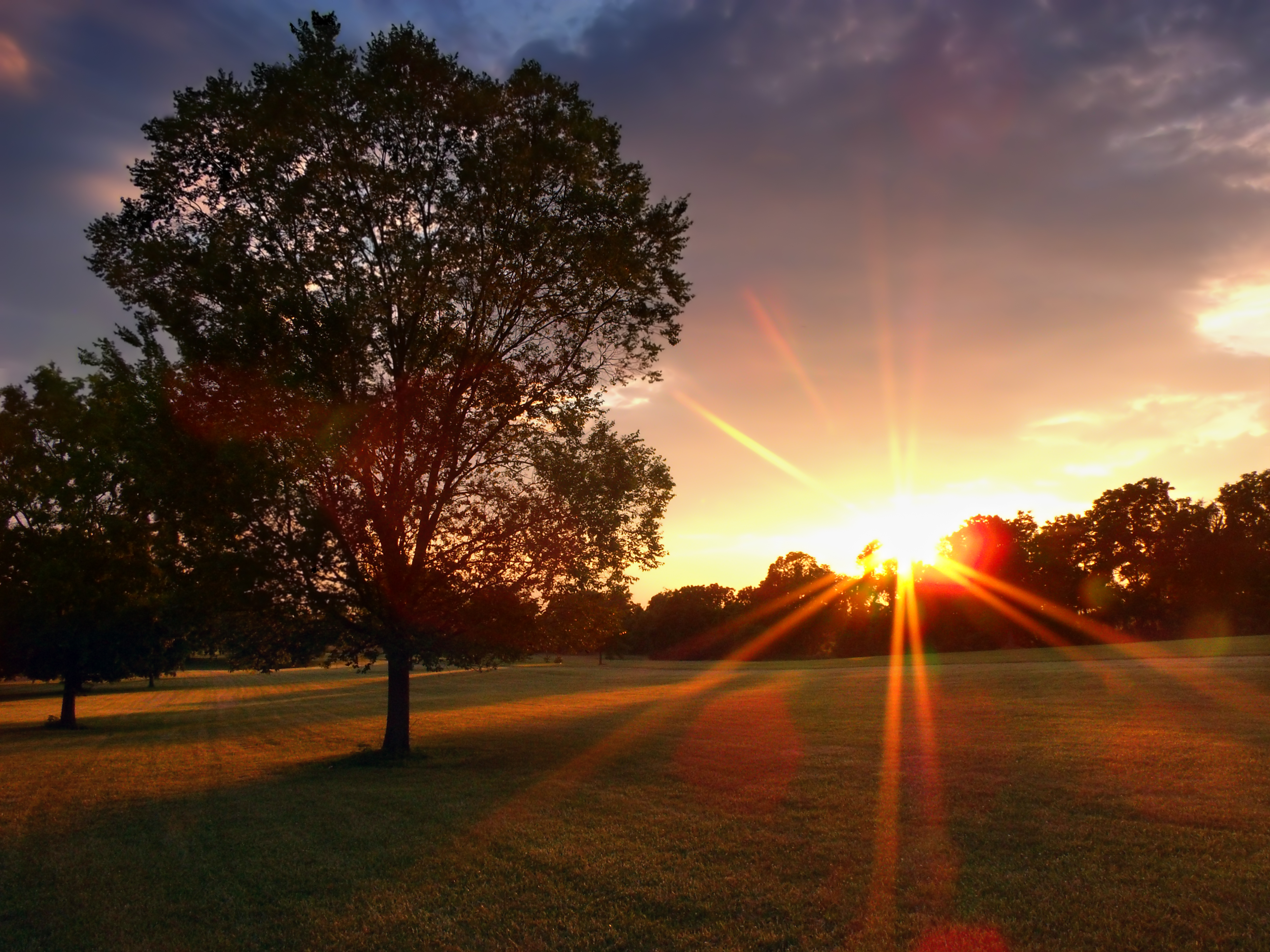 Louise W. Moore Park, Northampton County, at dusk.